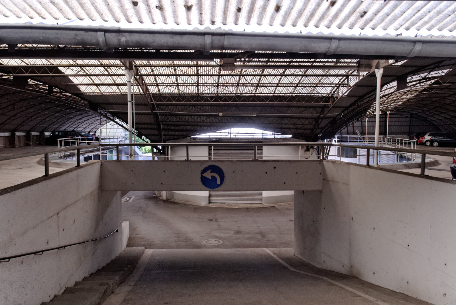 Garagenanlage, Erftstraße 9 to 11 in Düsseldorf-Unterbilk, Germany This is a photograph of an architectural monument.